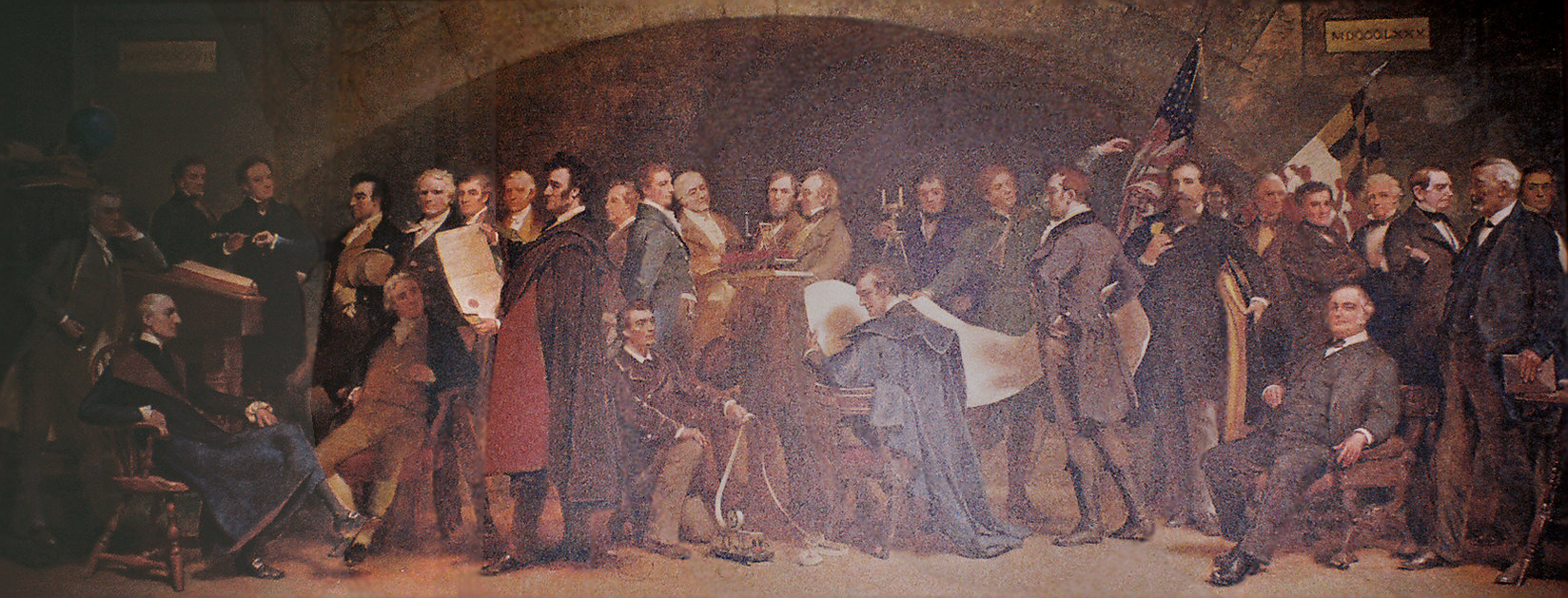 Founders of the Baltimore and Ohio Railroad, oil painting by Francis Blackwell Mayer. The original is at the headquarters of CSX Transportation in Jacksonville, Florida (U.S.). The painting represents the history of the Baltimore and Ohio Railroad (B&O) beginning with its founding in 1827 to 1880 (left to right). B&O's president in 1880, John W. Garrett, is seated at right.